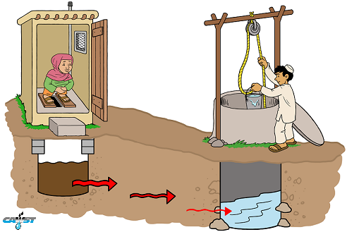 Groundwater Contamination from pit latrines SW Asia style